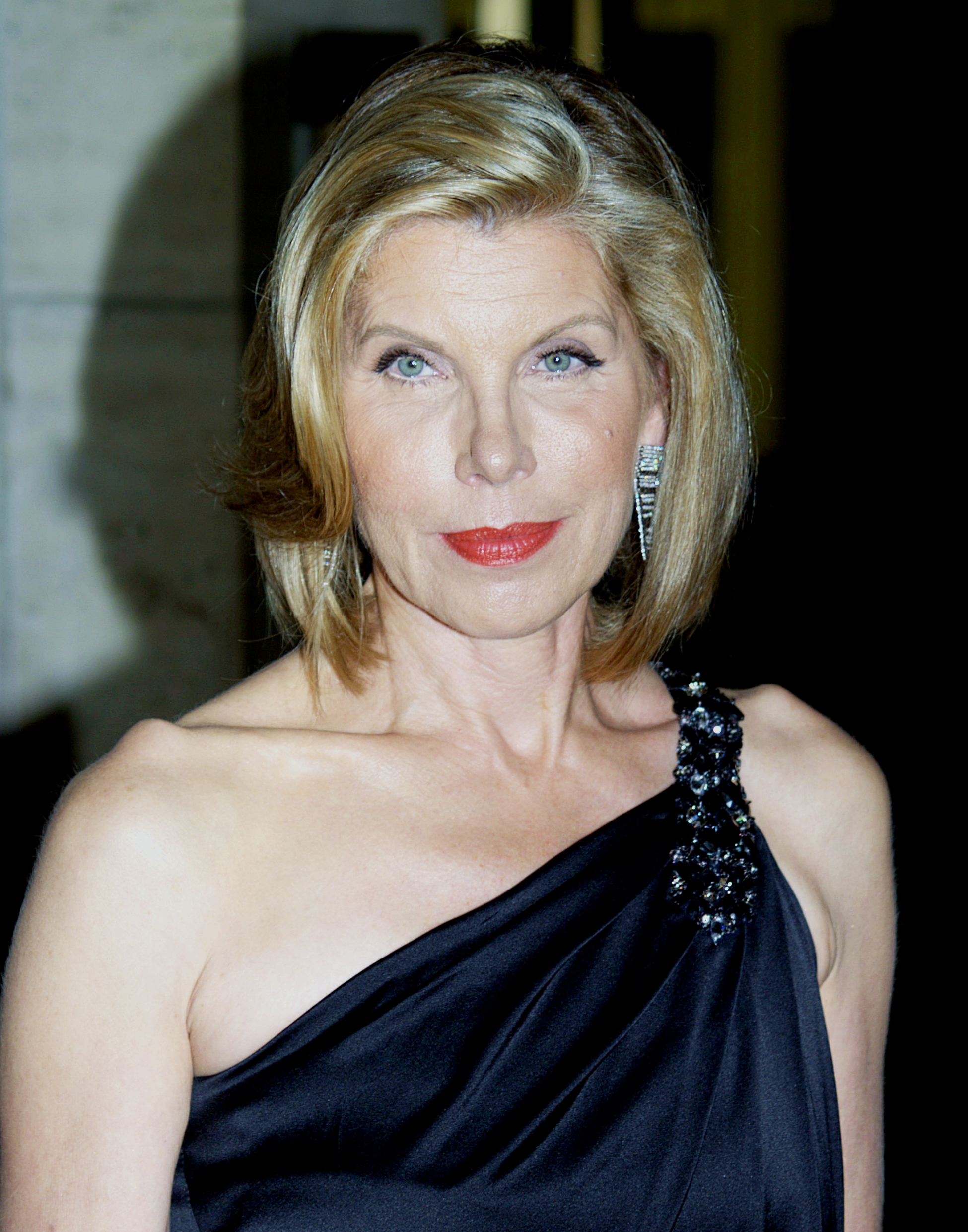 Christine Baranski at Metropolitan Opera's 2010-11 Season Opening Night - "Das Rheingold"